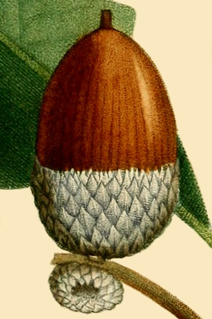 Quercus bicolor - Swamp White Oak (captioned: Quercus Pus. discolor [Q. prinus var. discolor] - acorn